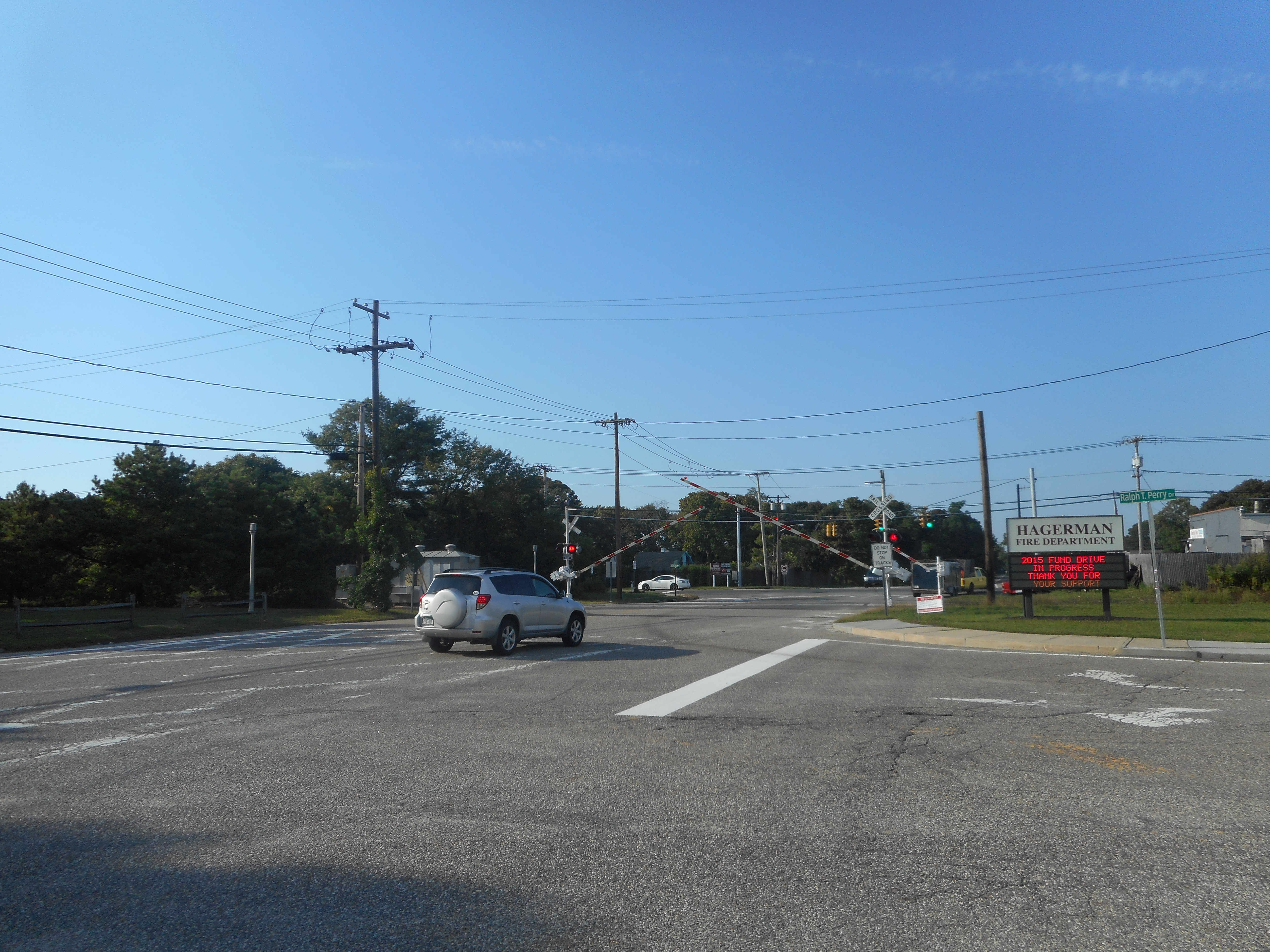 Site of the former Hagerman Long Island Rail Road station at the intersection of North Dunton Avenue and Ralph T. Perry Drive (Oakdale Avenue) in Hagerman, New York. As you can tell by the crossing gates, a train was about to cross the road, but I can't remember if it was headed towards Montauk or New York City.